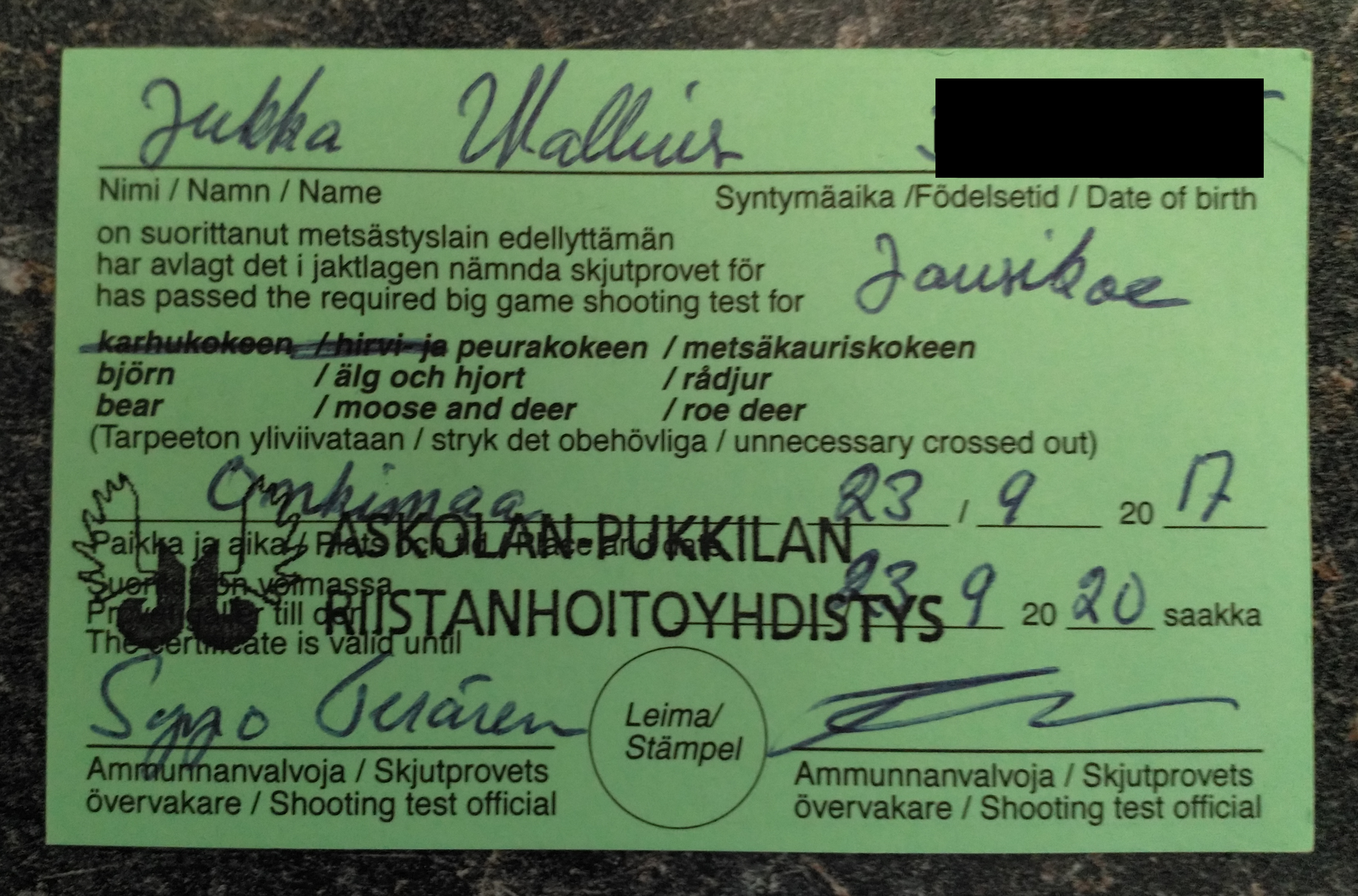 Official certificate of the bow hunting experiment (Finland national hunting license)